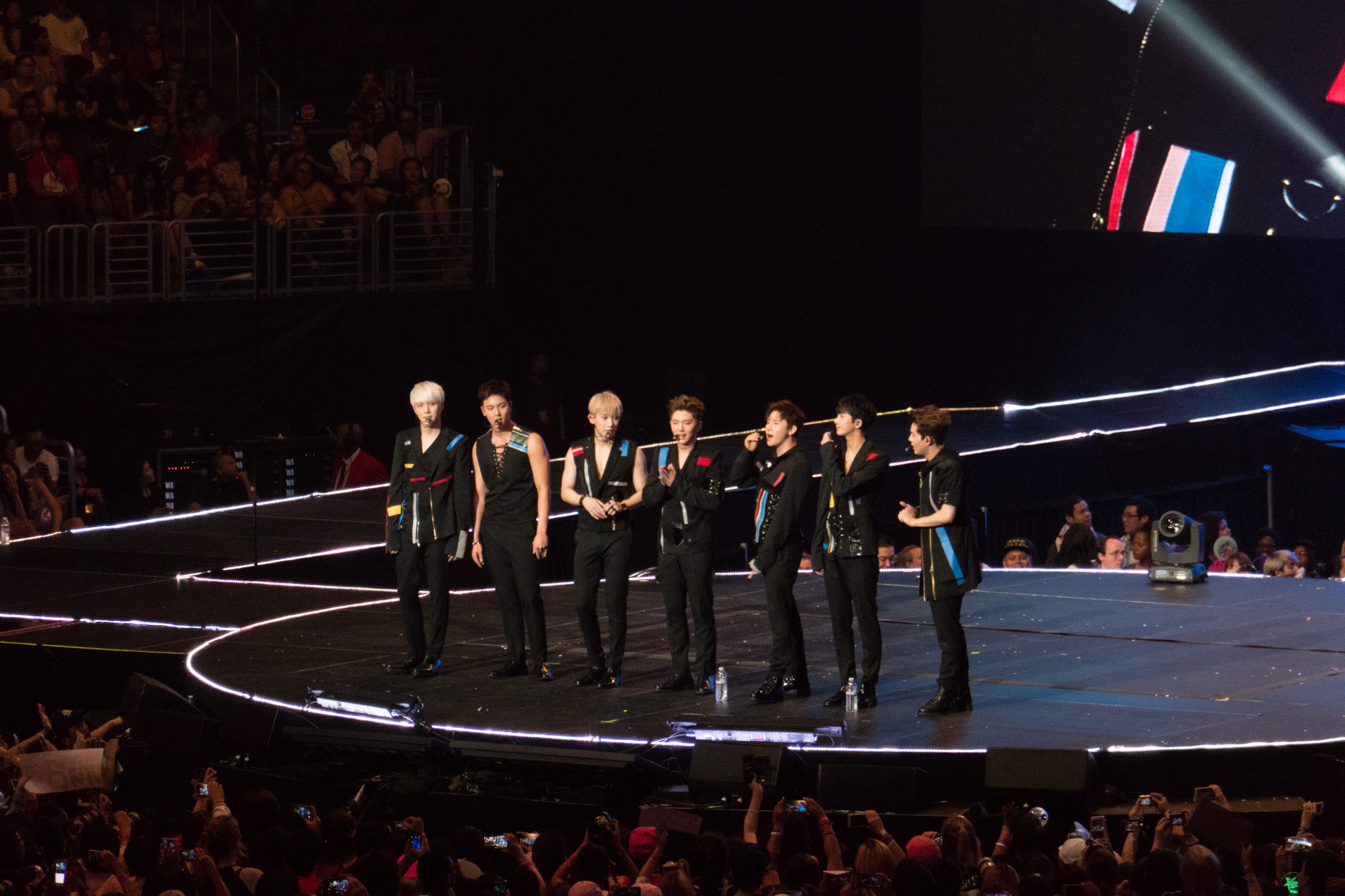 MonstaX (몬스타엑스) live at KCON 2016 LA